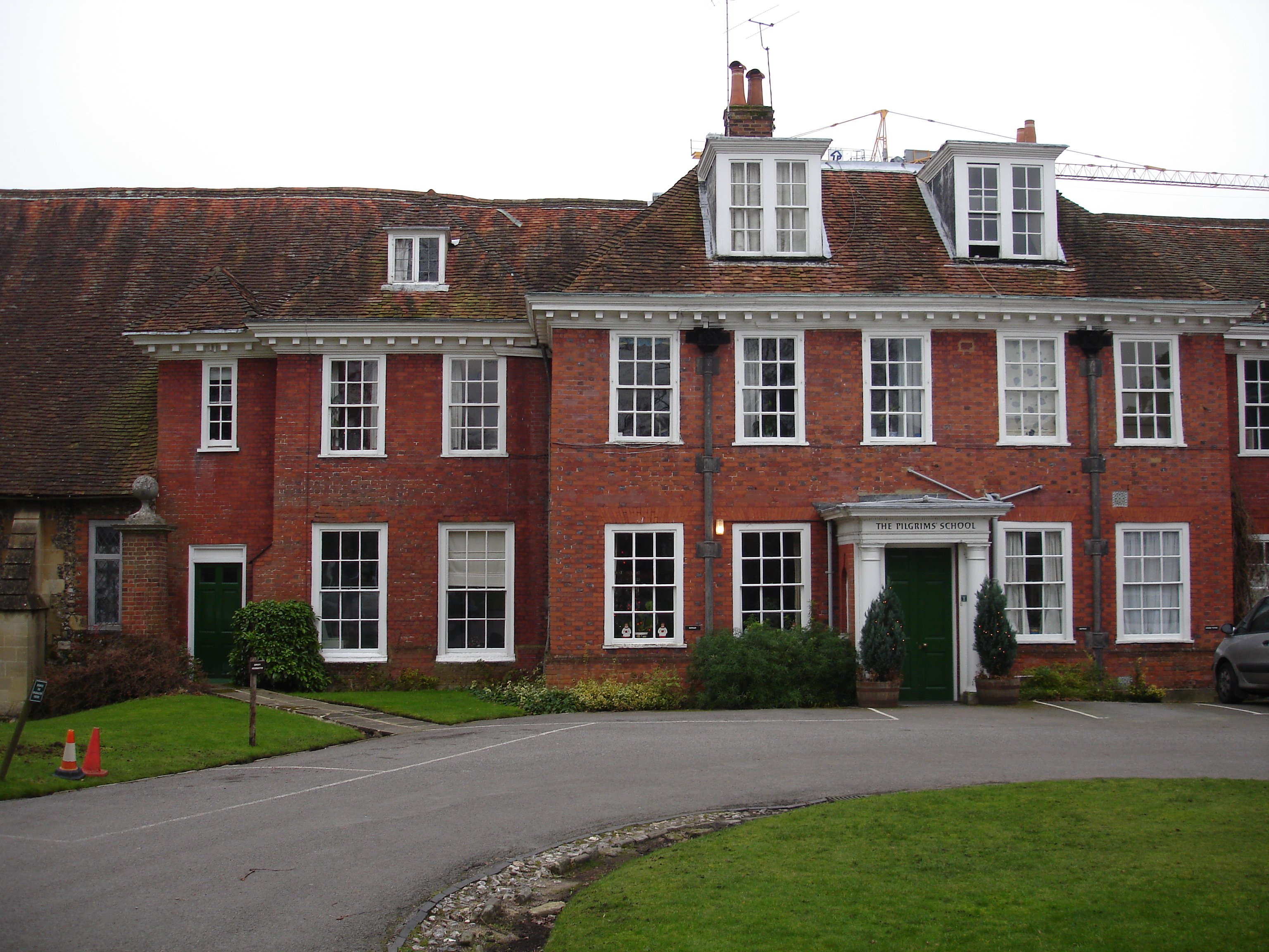 Pilgrims' School, Winchester, is a boys' preparatory school. Suzanne Knights, my photo, xmas 2007